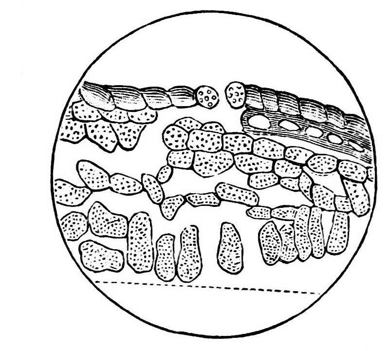 Leaf cross section showing chlorophyl in cells